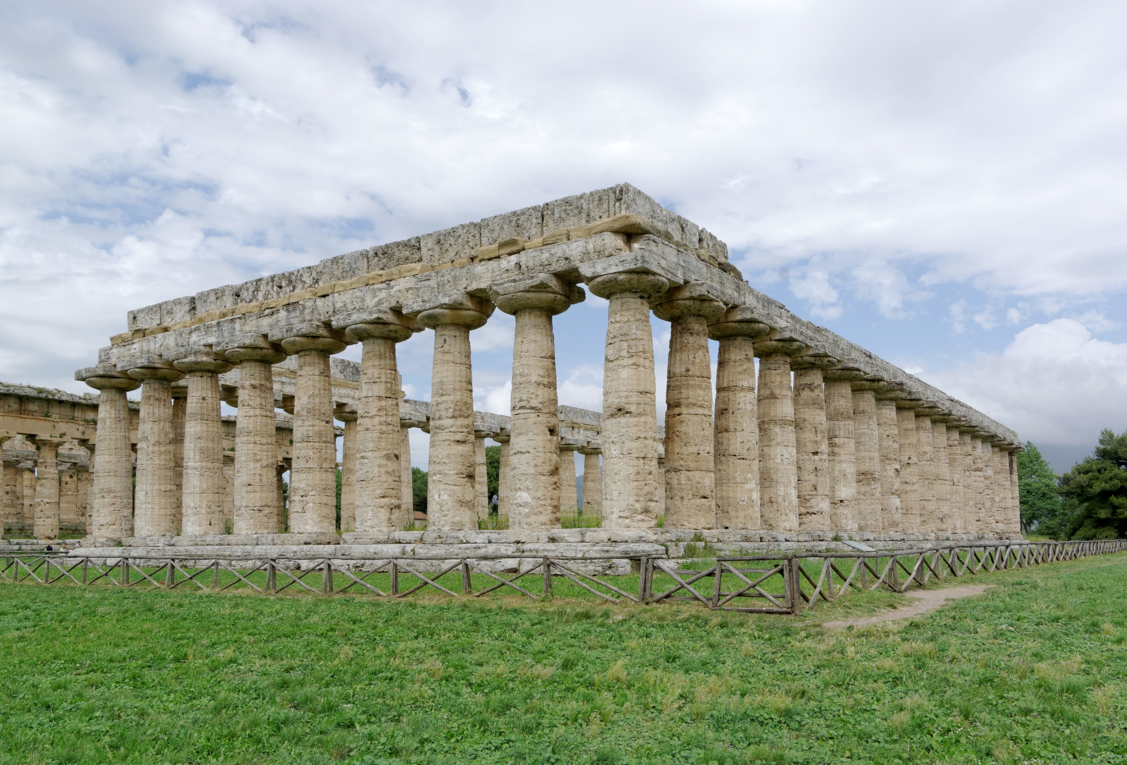 Italy, Paestum, Temple of Hera I